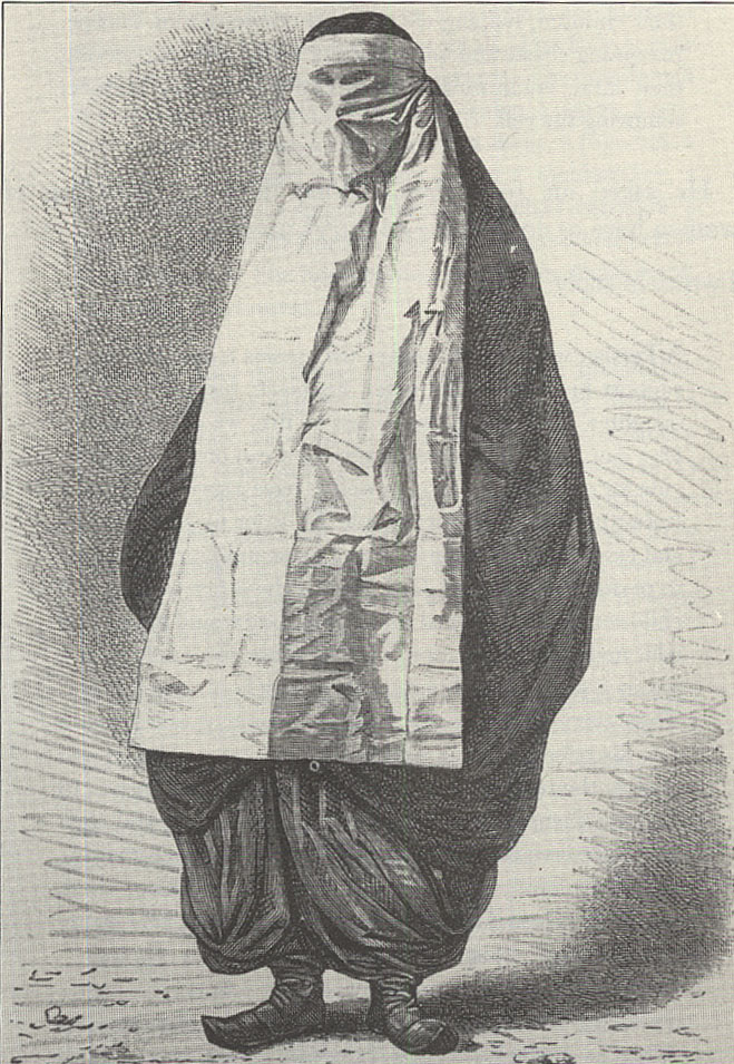 Engraving of a woman wearing a niqab